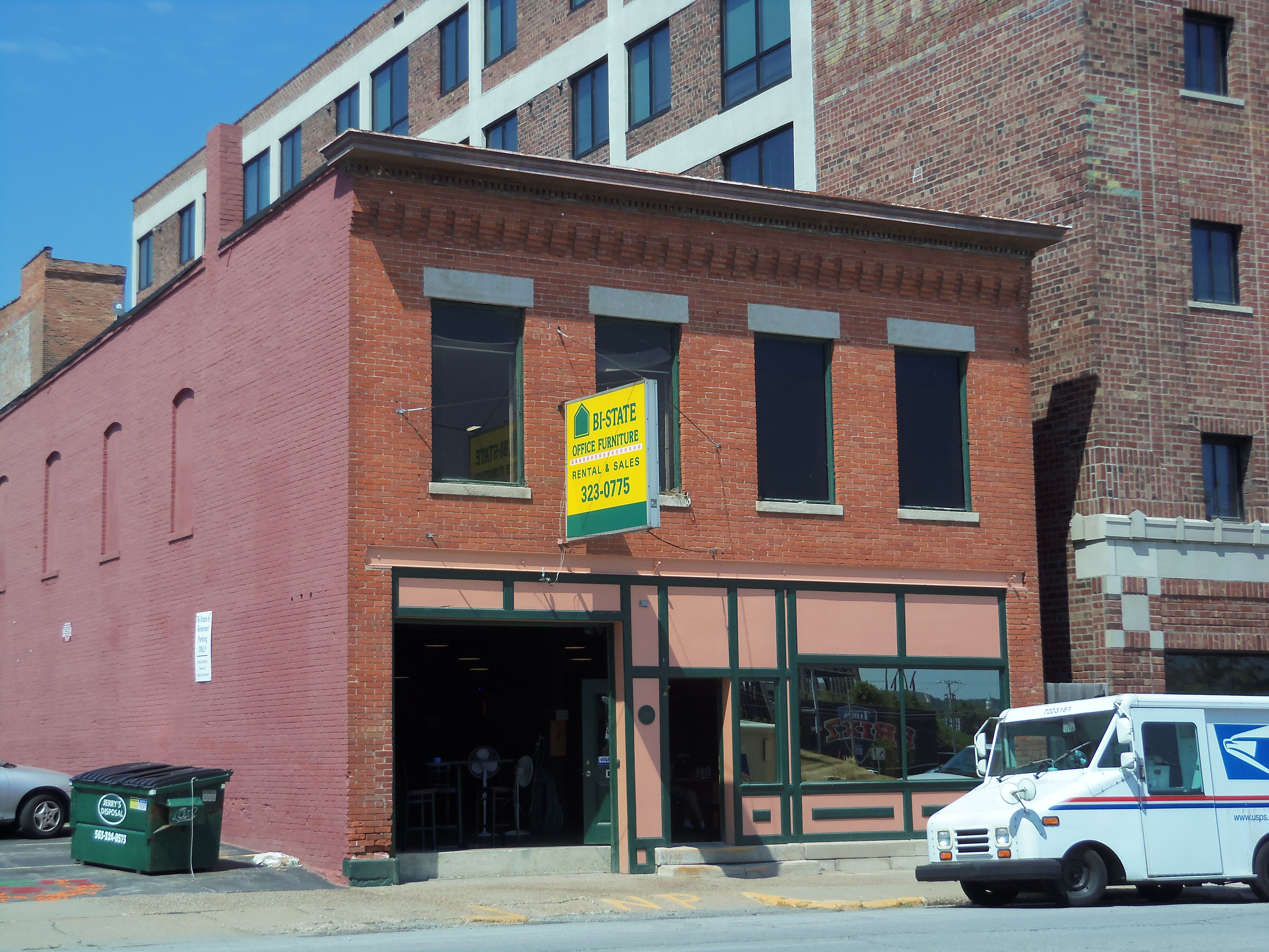 A contributing property in the Crescent Warehouse Historic District, which is listed on the National Register of Historic Places.